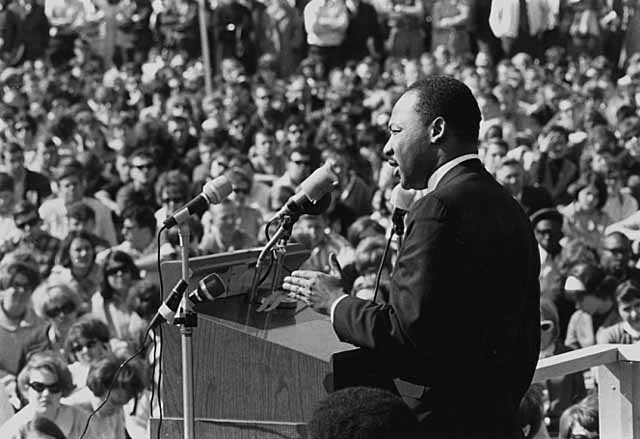 Martin Luther King, Jr., speaking against the Vietnam War, St. Paul Campus, University of Minnesota